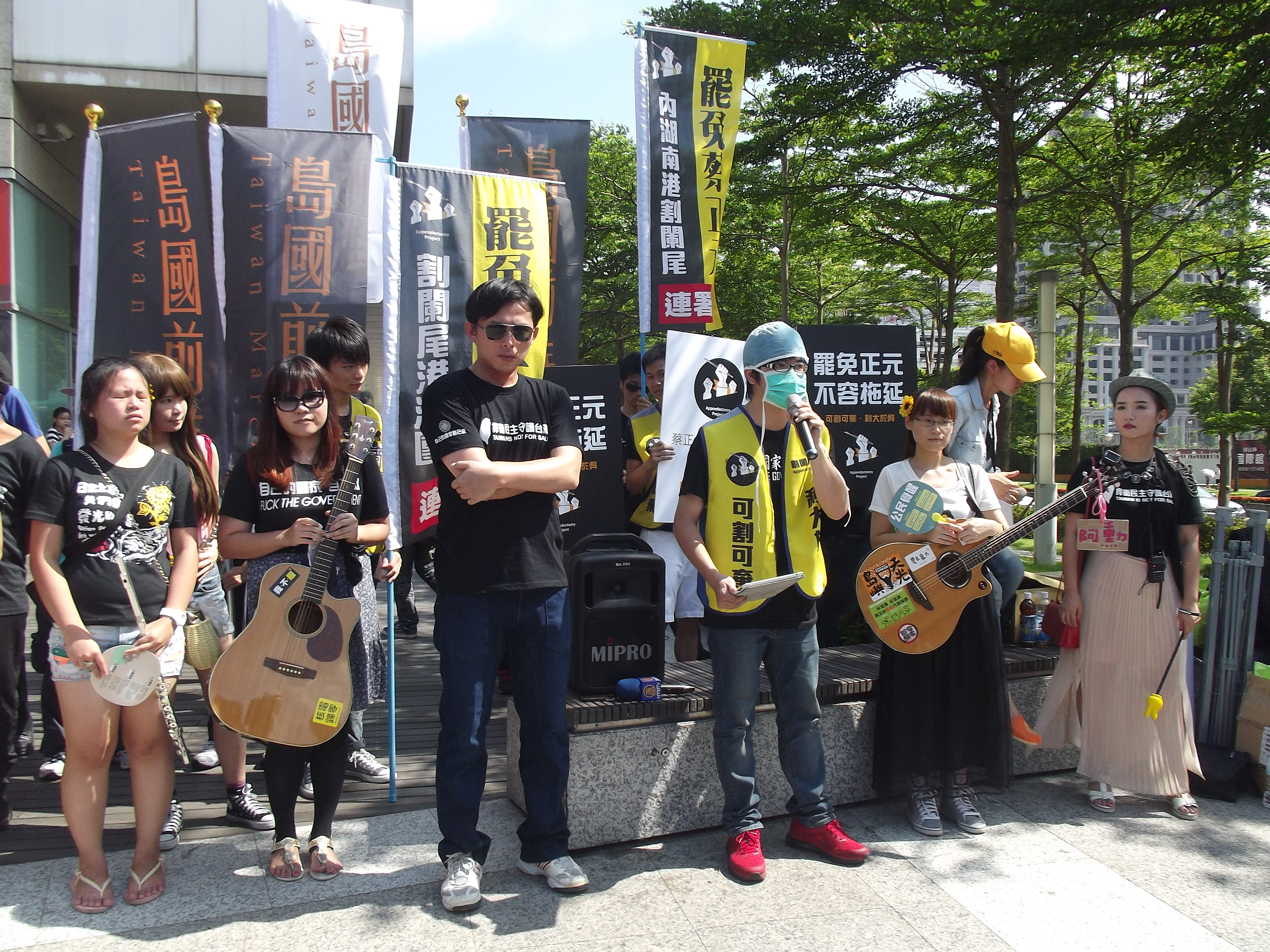 Appendectomy Project in Taiwan.